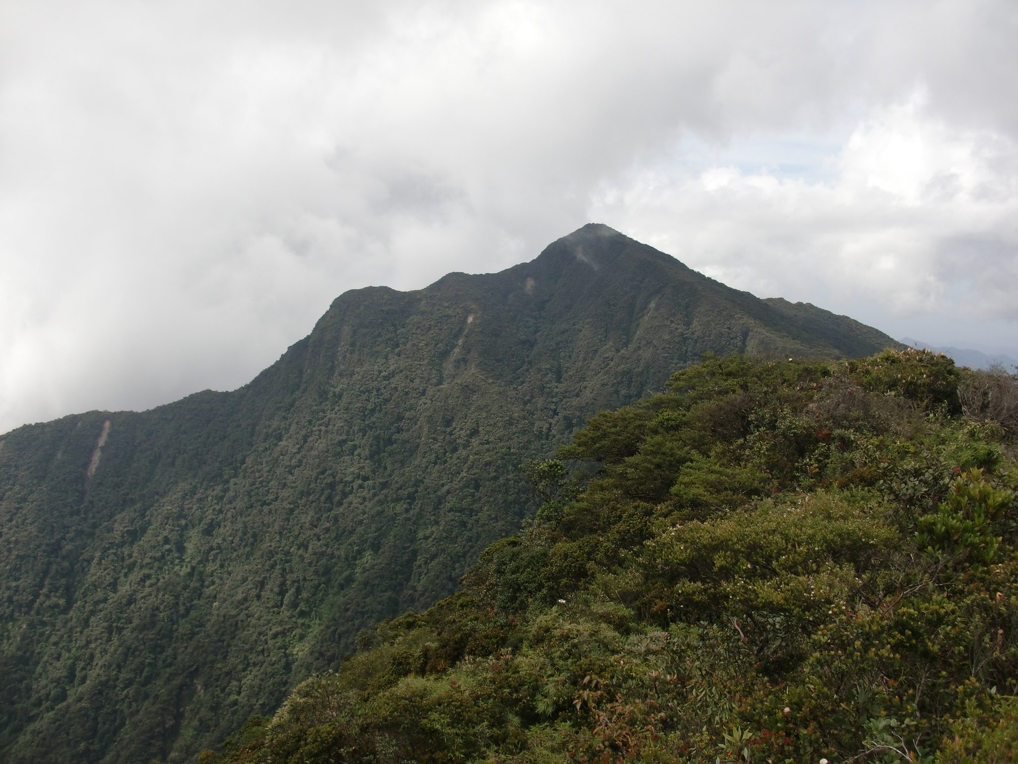 Mount Korbu peak taken from the track to Mount Gayong.